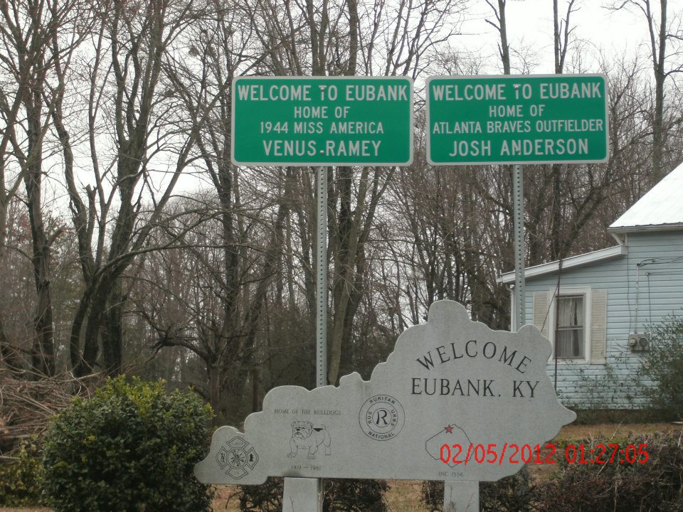 This Welcome Sign to the city of Eubank, Ky. can be found on the south side of the city on Hwy. 1247. It is one of several throughout the Northern Pulaski/Lincoln County town.